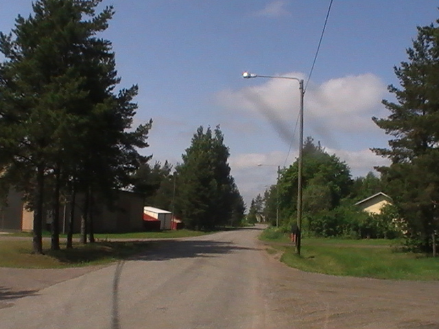 The main road of Karhia village in June 2013 at Köyliö, Finland. Road seen in the picture is a good detour for Pyhän Henrikintie between the villages of Kankaanpää and Yttilä.